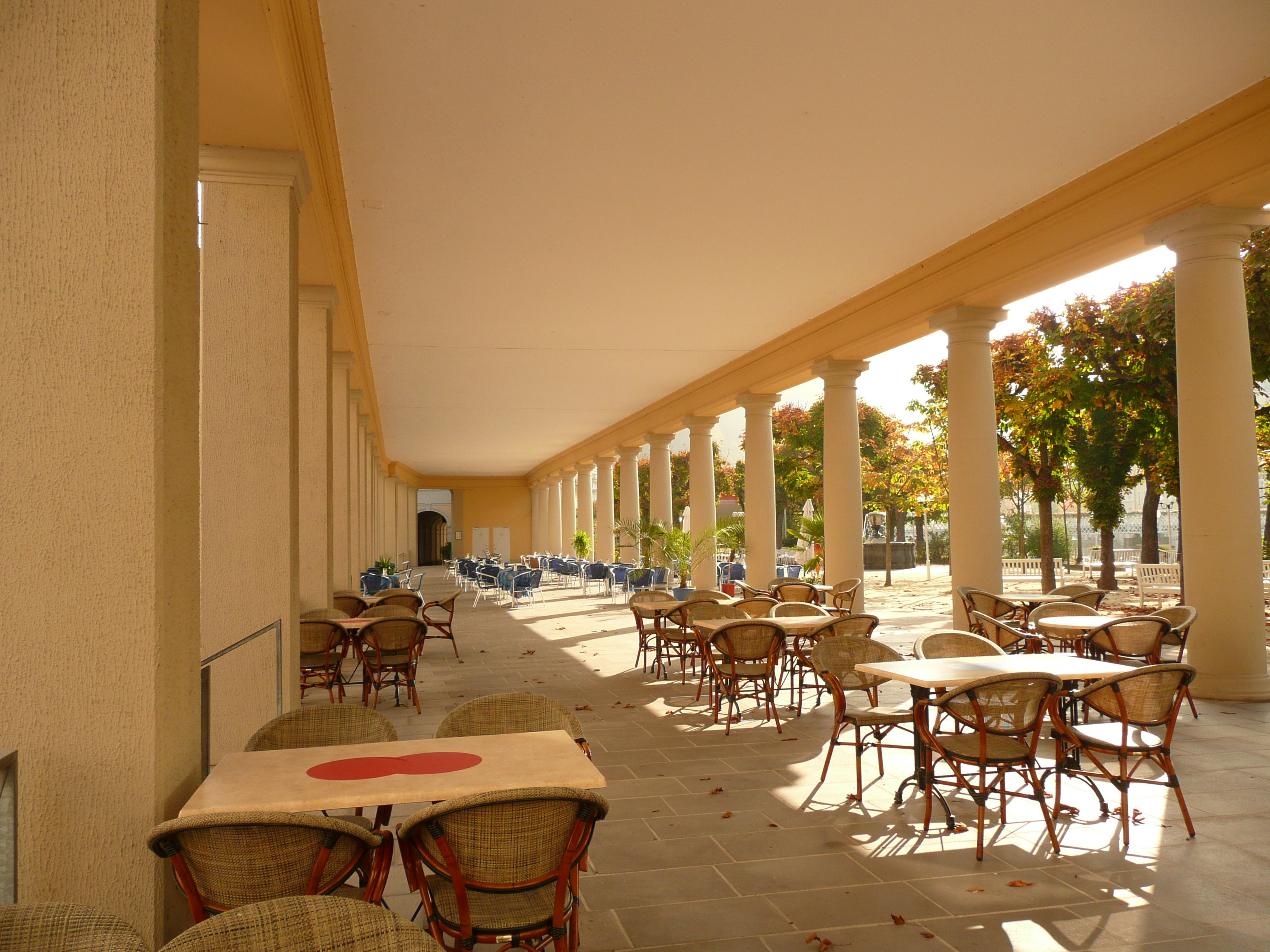 Kolonnade in Bad Ems; built 1836/39